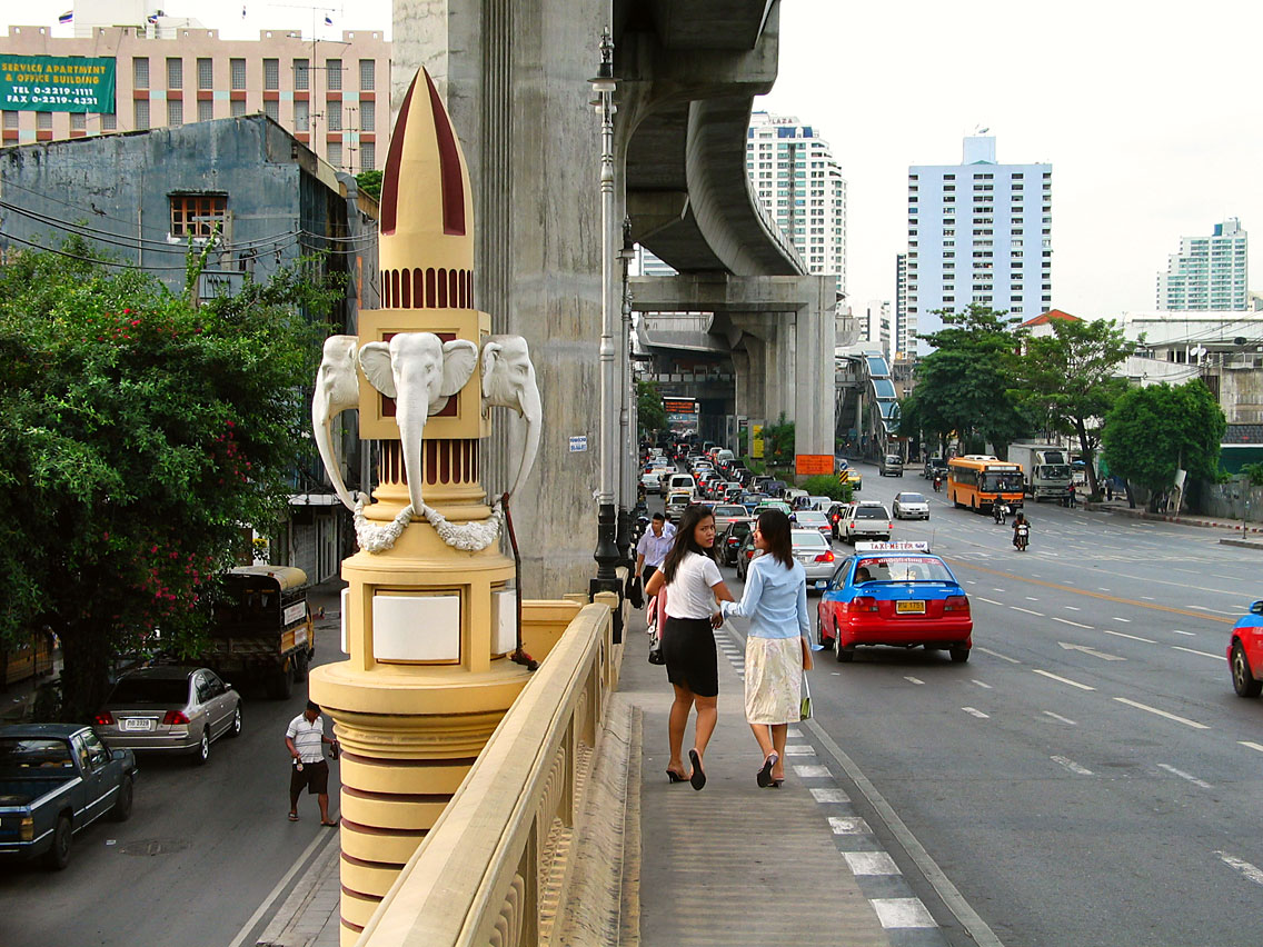 Chalermla-Bridge Phayathai-Road over Khlong Saen Saeb underneath skytrain sukhumvit line near Ratchtewi station.